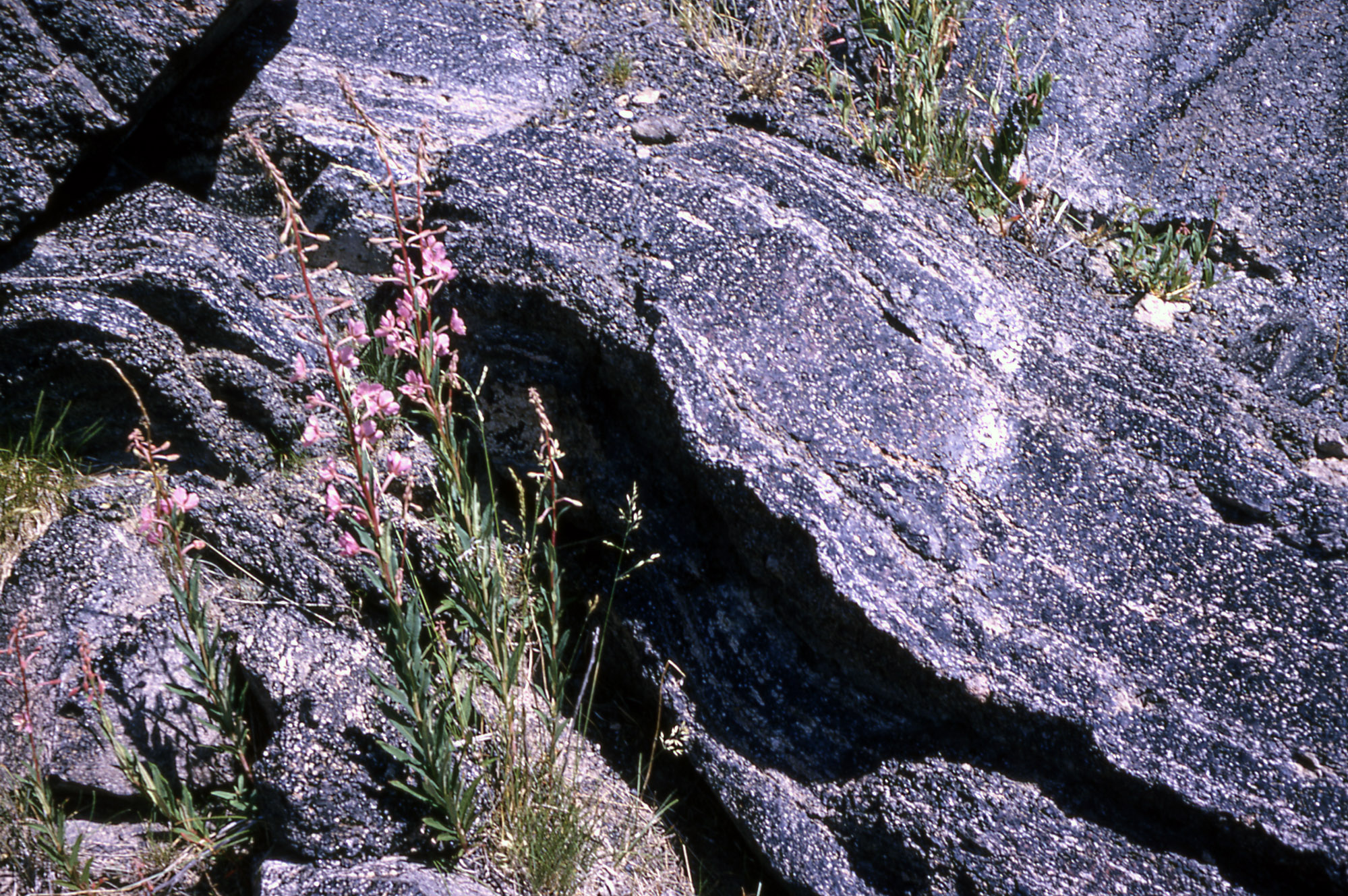 Perlite boulders with Fireweed (Chamerion angustifolium)